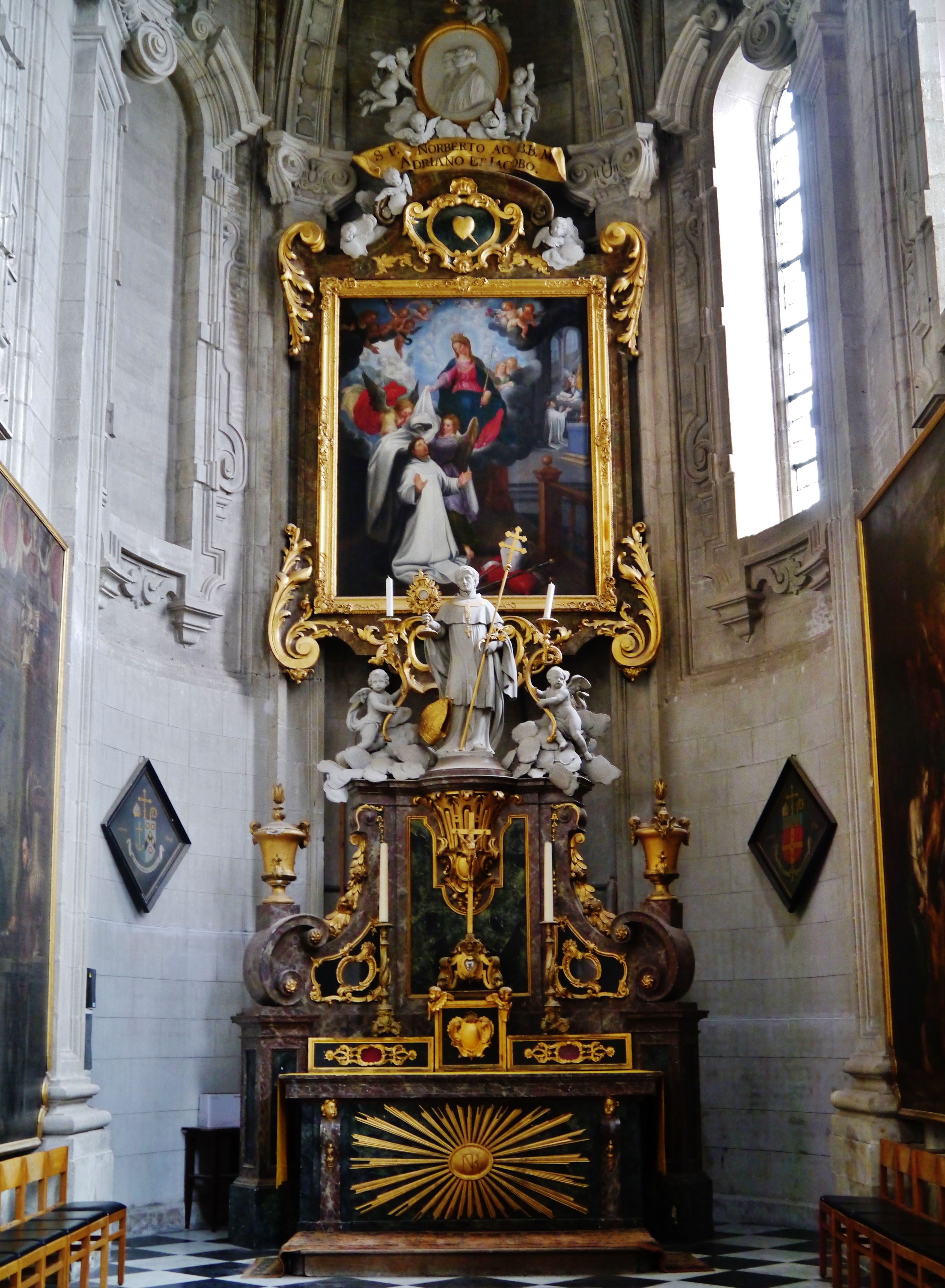 Altar at a Chapel of the Basilica St. Servatius, Grimbergen, Province of Flemish Brabant, Flanders, Belgium